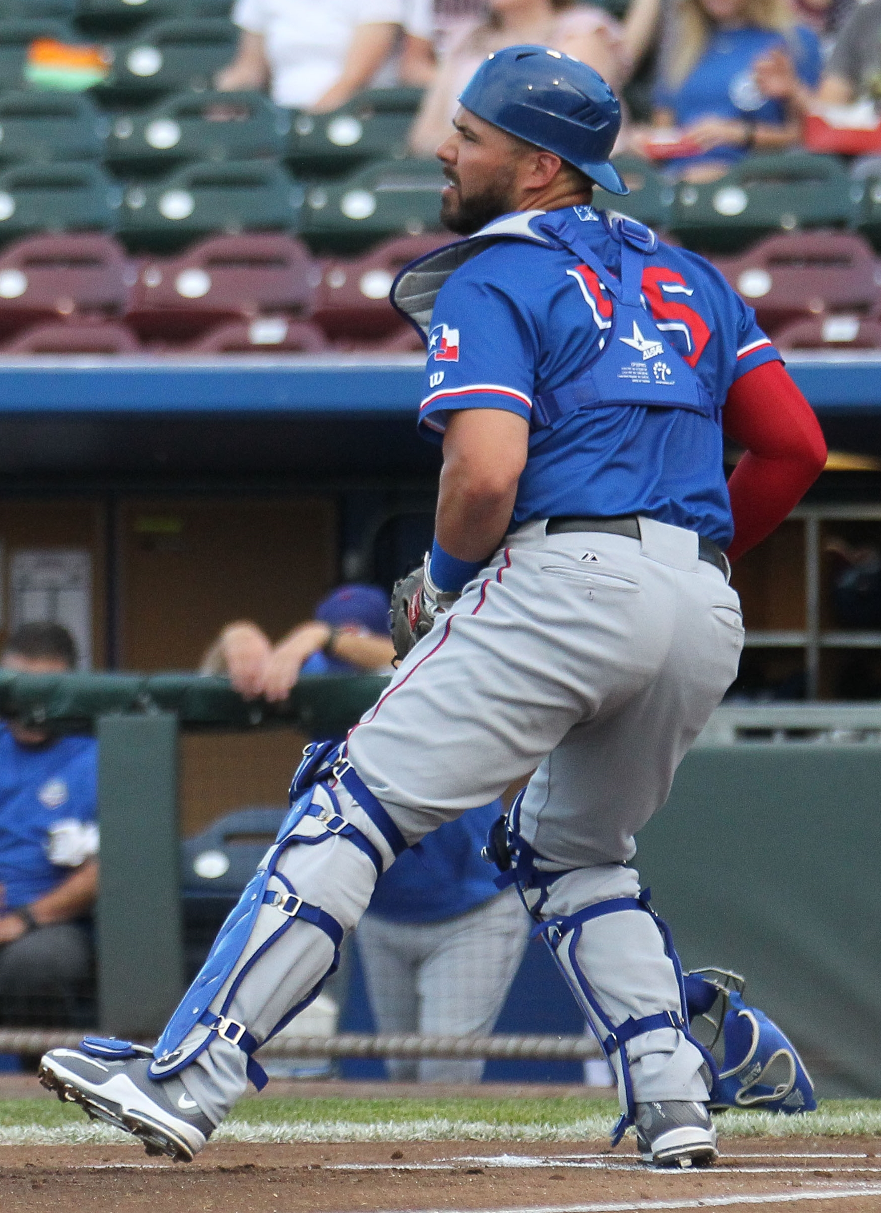 Tony Sanchez, catcher for the Round Rock Express Minda Haas Kuhlmann | 2018 USAGE INSTRUCTIONS: You are welcome to share or publish to your own site or social media account, but you MUST credit me, Minda Haas Kuhlmann. Twitter: @minda33. Instagram: minda.haas